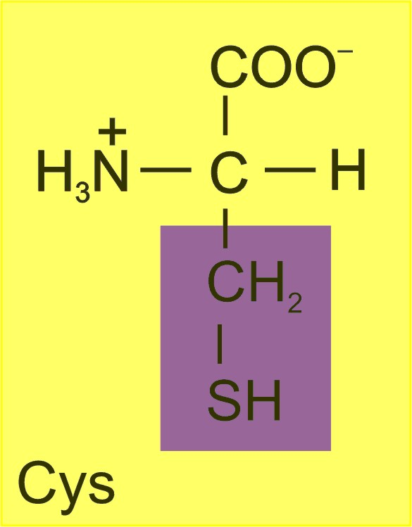 Cysteine amino acid jpg